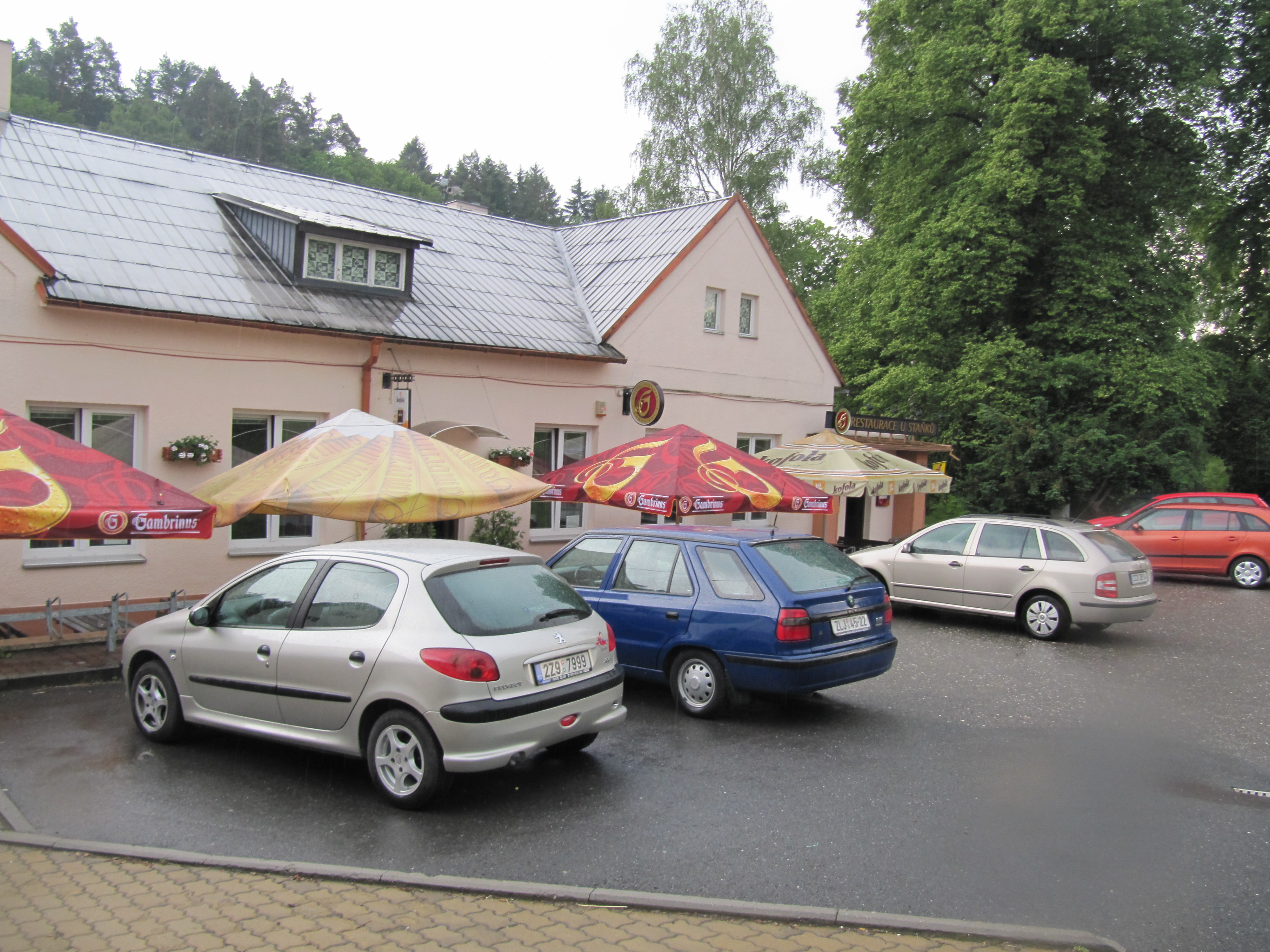 Zlín, part Kostelec, Czech Republic. Restaurant U Staňků at the spa.